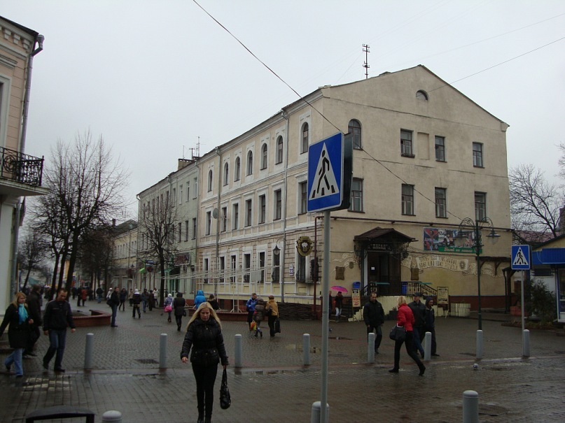 Mahiloŭ - Centre of the city Беларуская (тарашкевіца): Магілёў - Цэнтар места